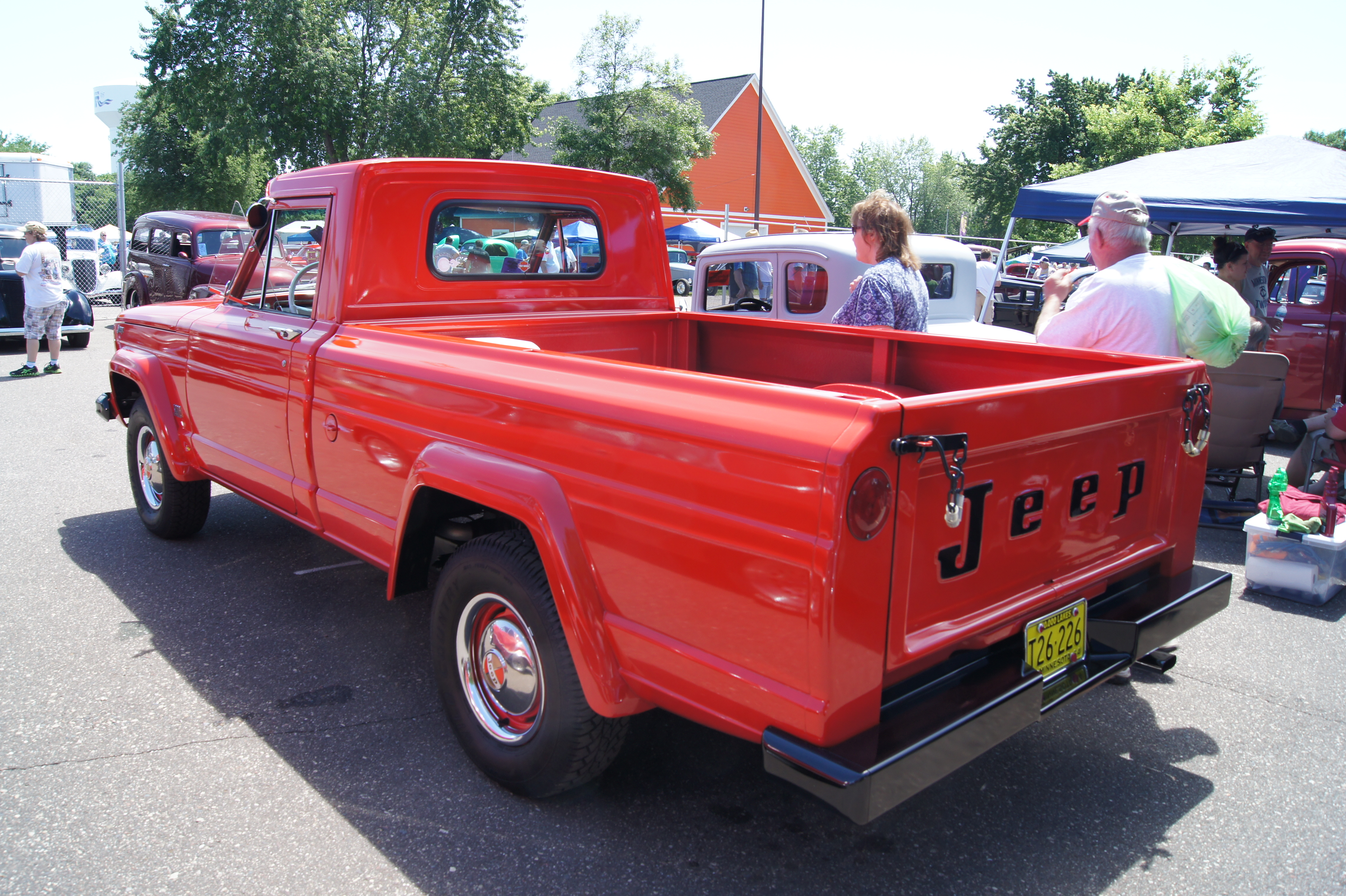 MSRA “BACK TO THE 50′s” 41st Annual June 20-22, 2014 State Fairgrounds St. Paul Minnesota More Car Pictures